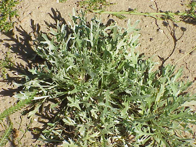 Species: Achillea clavenae Family: Compositae Image No. 1